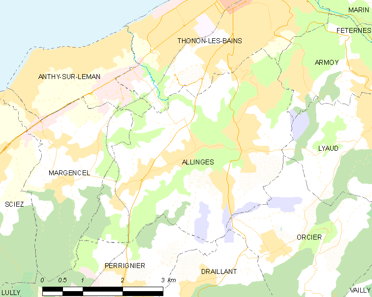 Map of French municipality Allinges